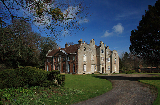 Edmondsham House Described as a Grade II* Tudor manor house with Georgian additions, the original Tudor house consisted of just the central portion. This was built in local brick for its owner Thomas Hussey in two stages, the bottom two storeys first, followed by a third storey of Dutch style gabling that was completed in 1589. The two outer wings with their Dutch or Flemish style gables were added by his descendant John Fry Hussey between 1740 and 1750. After his death in 1760, the house passed by descent through a succession of ownerships to the Monro family. In 1825 their eldest son Hector married Henrietta Tregonwell, the daughter of Lewis Tregonwell, generally acknowledged to have been the founder of the seaside town of Bournemouth. A period of alterations and remodelling followed well into the next century, which included stucco rendering in 1837 of the old Tudor brickwork at the front of the house. To this day, The house is still owned by a descendant of the same family.